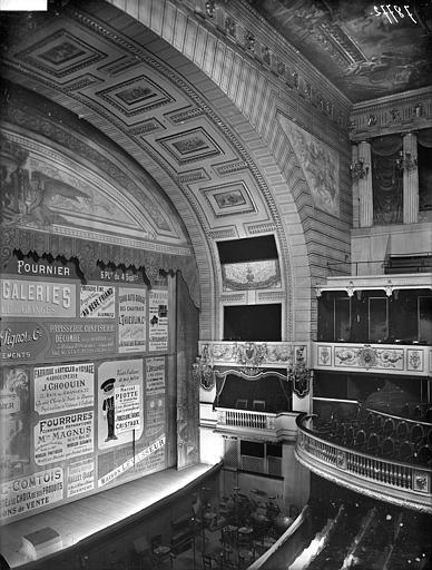 Besançon (Doubs, France)